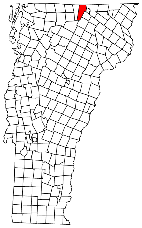 Description: Map of Vermont towns with Newport highlighted Source: Map created by Jared C. Benedict on 26 March 2004. Copyright: © Jared C. Benedict. Category:Newport (town), Vermont